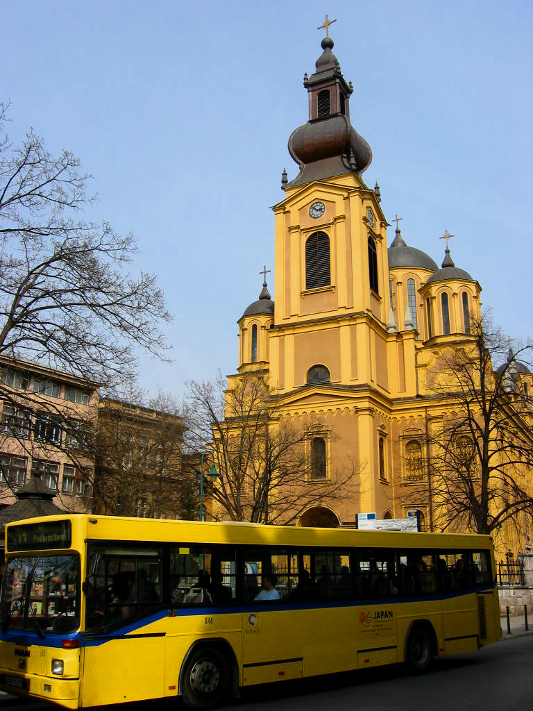 The serbian orthodox church in Sarajevo.